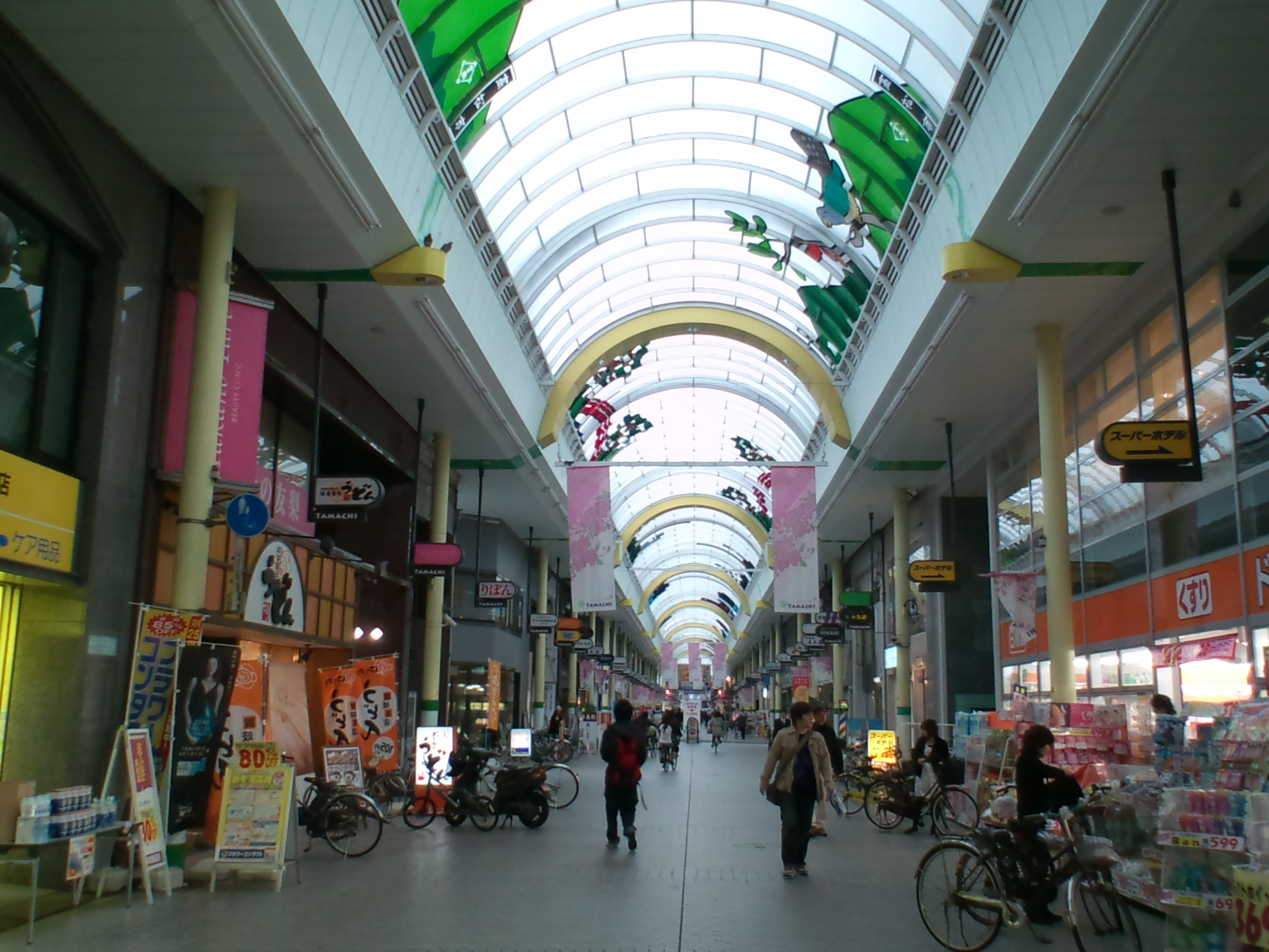 Tamachi shōtengai. Takamatsu, Kagawa.